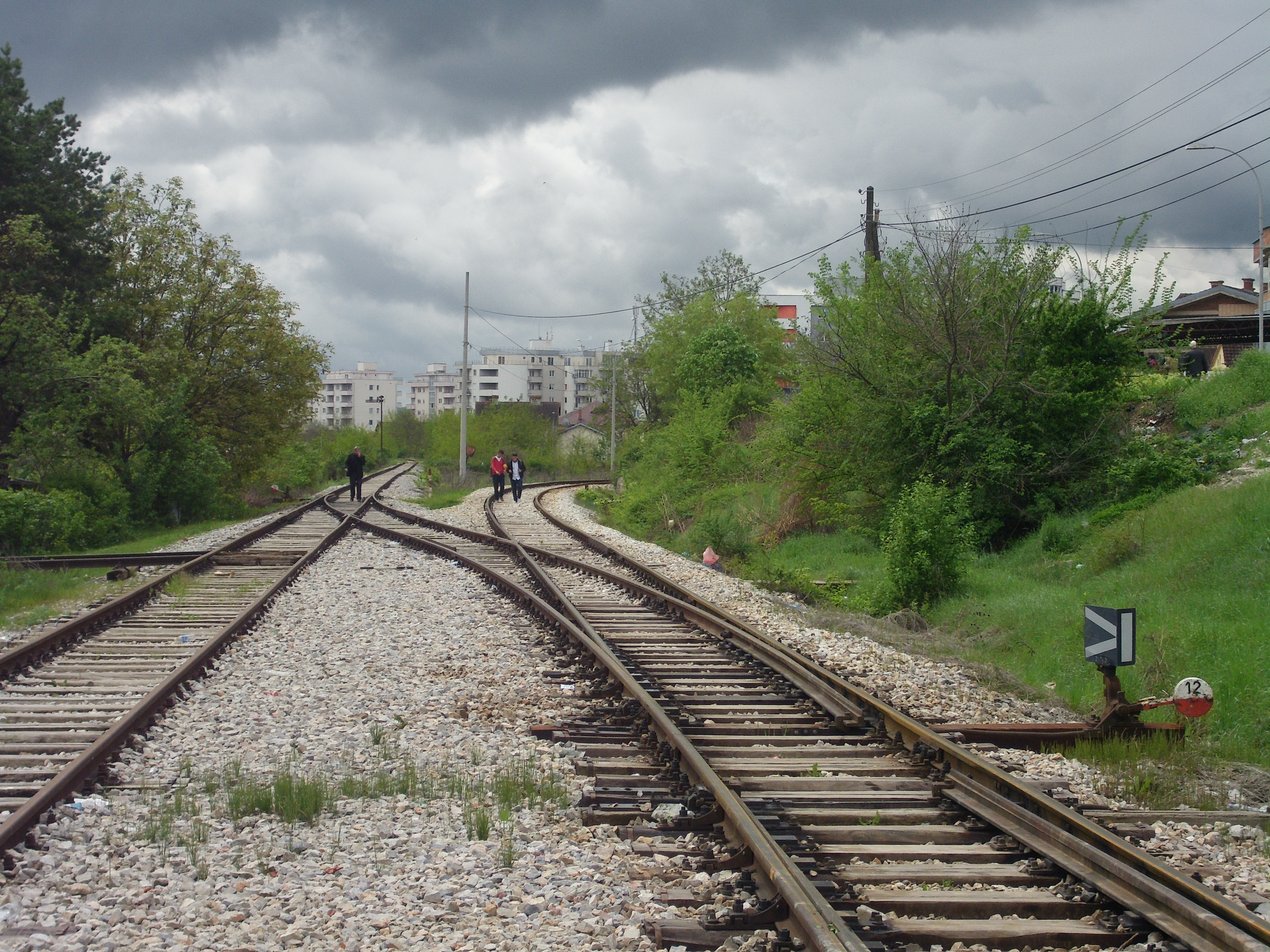 Tracks at the western end of Klina (formerly Metohija) station in Kosovo. The one to the left was a disused line to Prizren; the one to the right goes to Pejë.